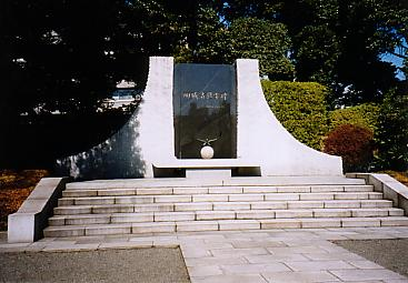 Ichigaya Memorial Zone